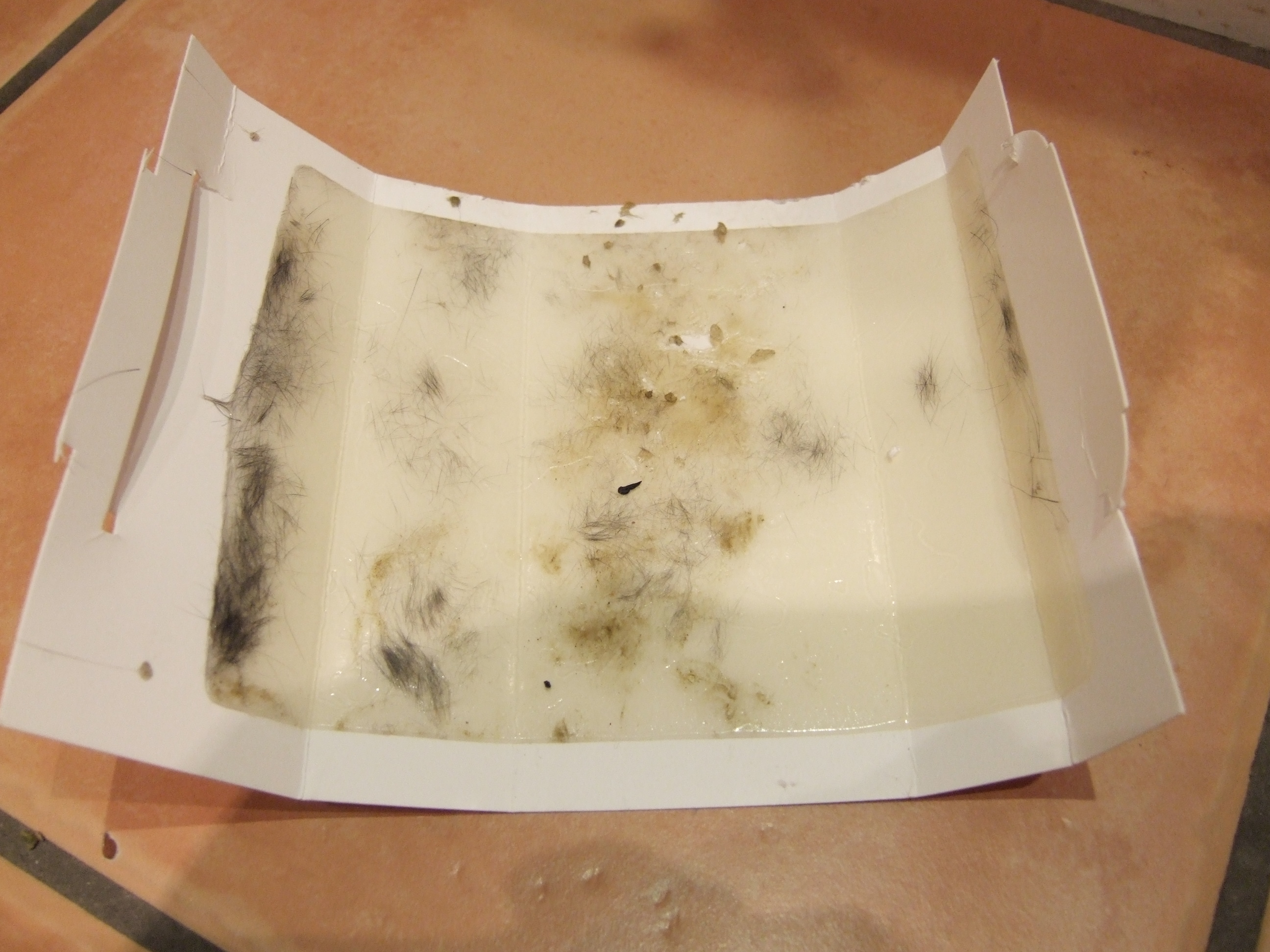 A glue trap for mice. A mouse has got stuck in the trap but managed to tear itself loose, leaving some of its hair. Originally the trap was folded in a box open on both ends but it has been opened here to get a clearer picture. Picture taken by me today.